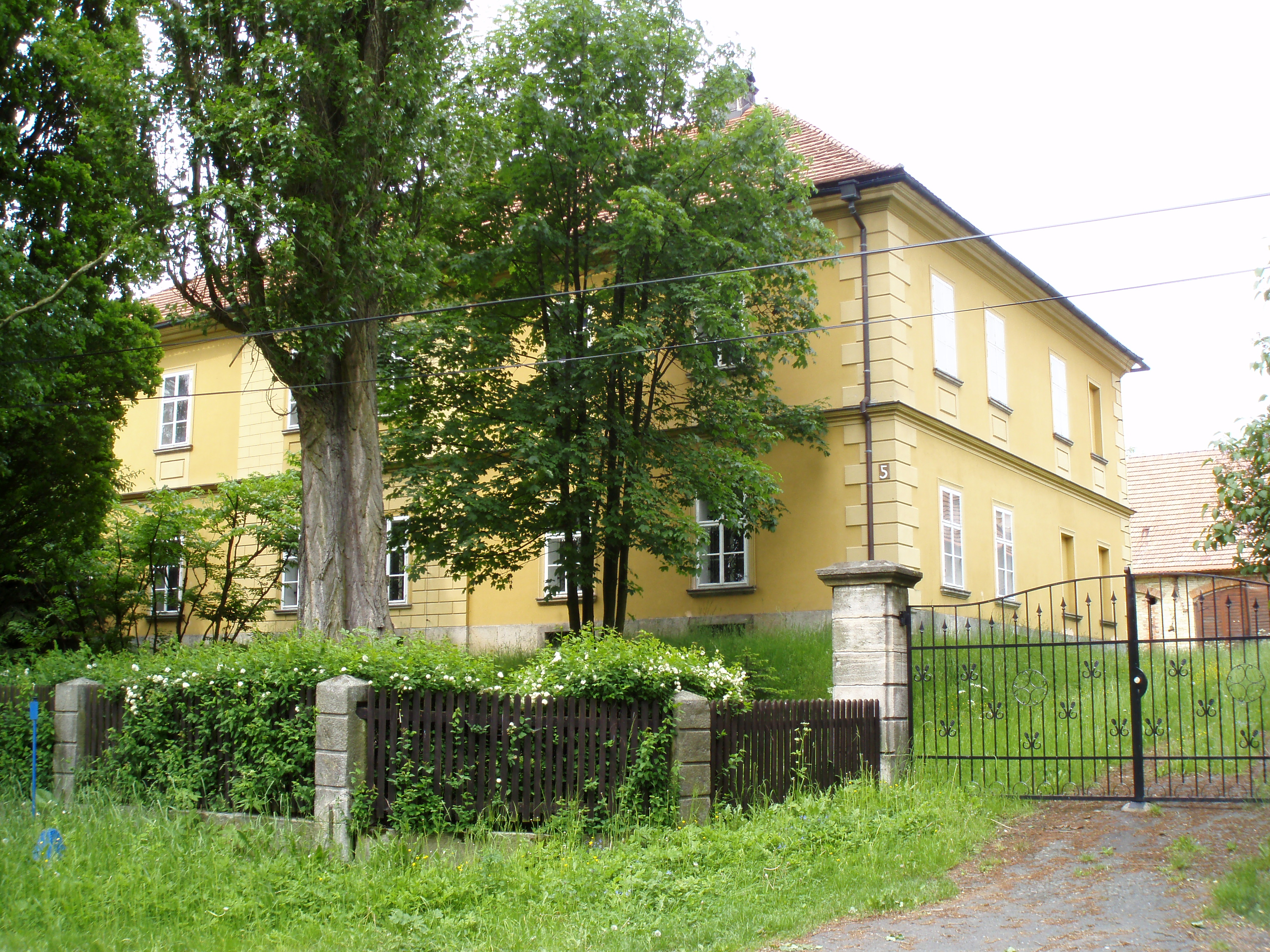 House nr 5 in Mezilečí (District of Náchod)